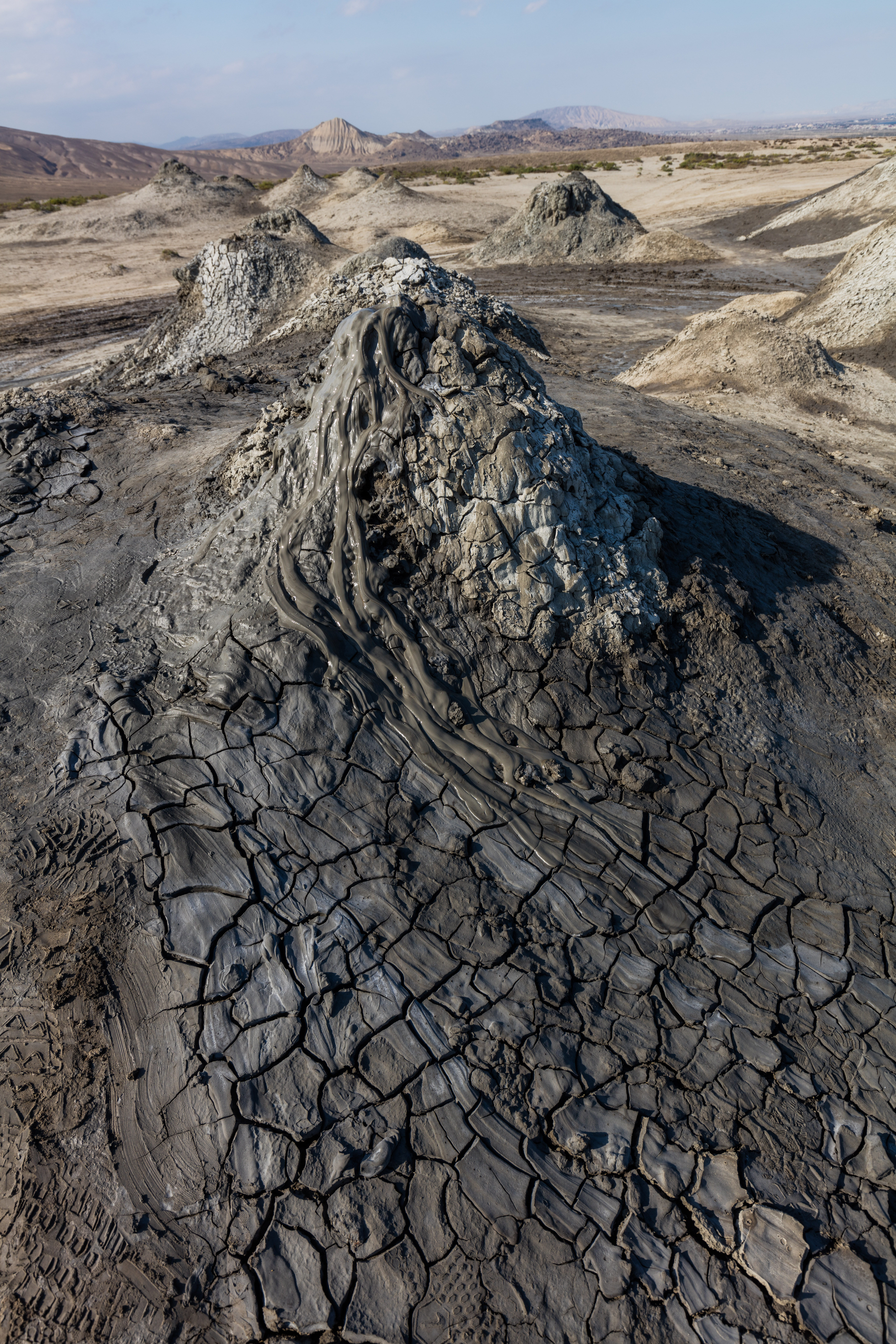 Mud volcanos, Qobutan National Reserve, Azerbaijan